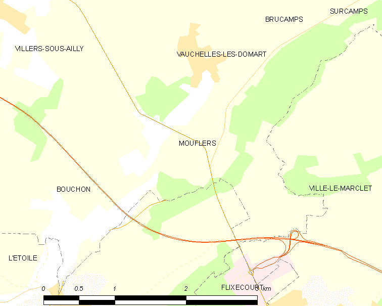 Map of French municipality Mouflers